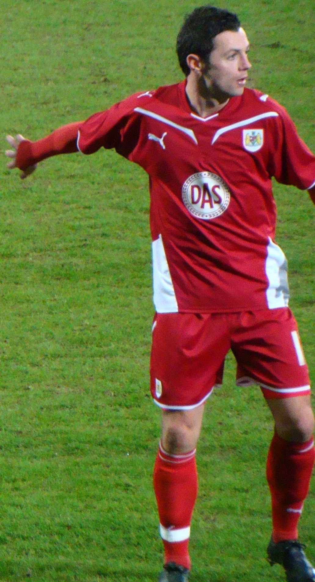 Ivan Sproule cropped from, 19/01/10 Cardiff City V Bristol City, FA Cup 3rd Round. Cardiff City Stadium, Cardiff, Wales